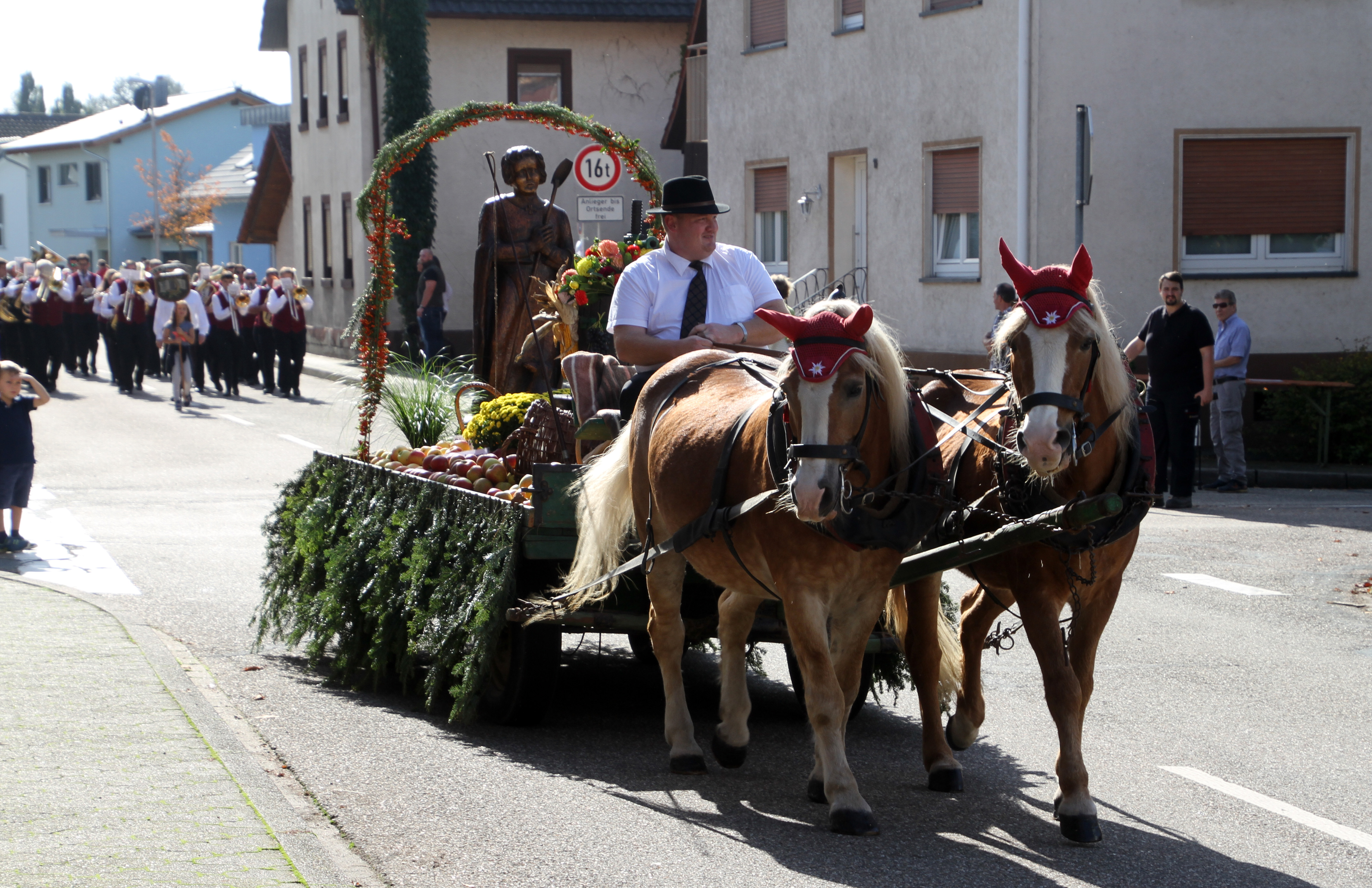 Ride in honor of the holy Wendelinus in Leiberstung